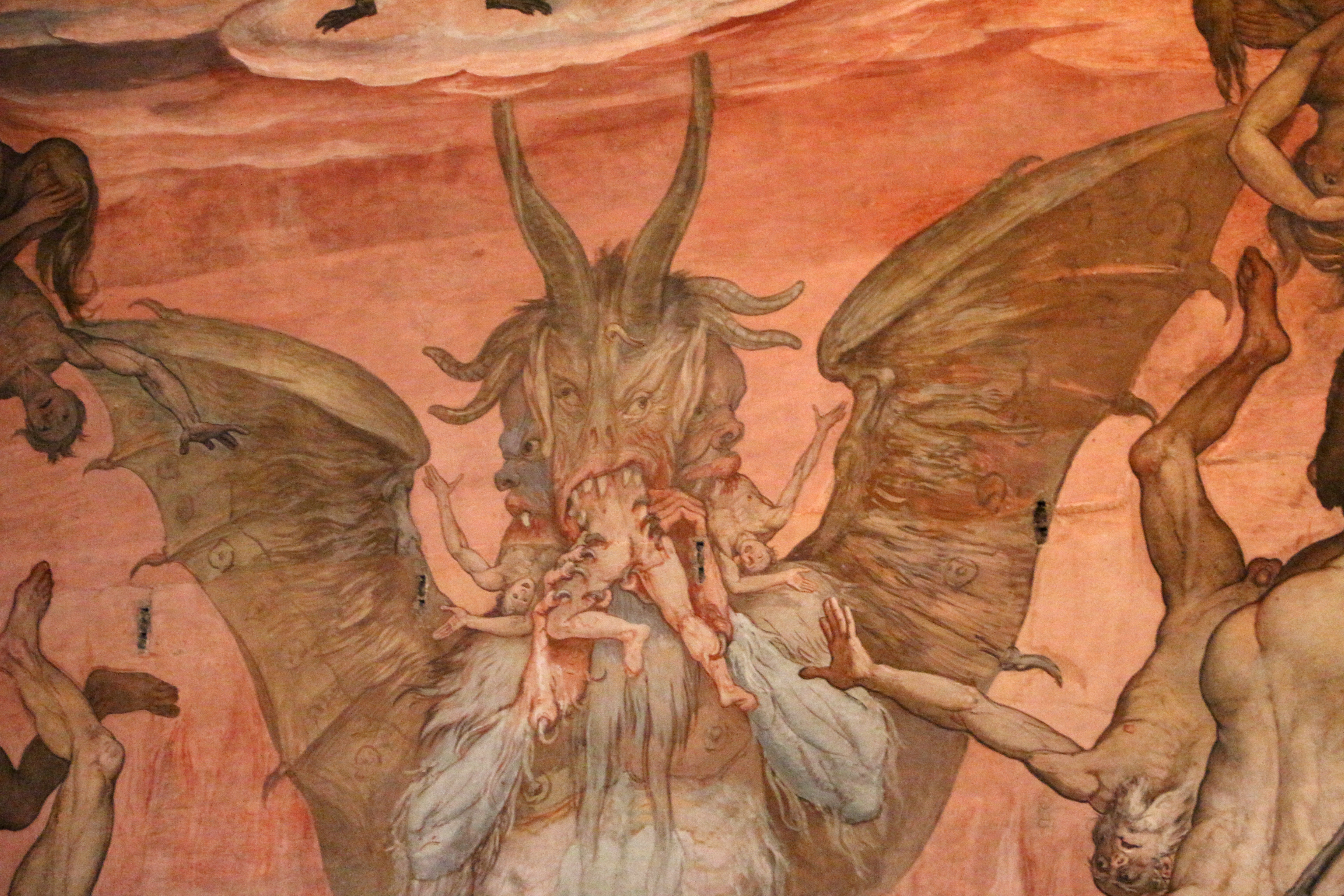 Santa Maria del Fiore (Florence) - Frescos inside the dome by Federico Zuccari